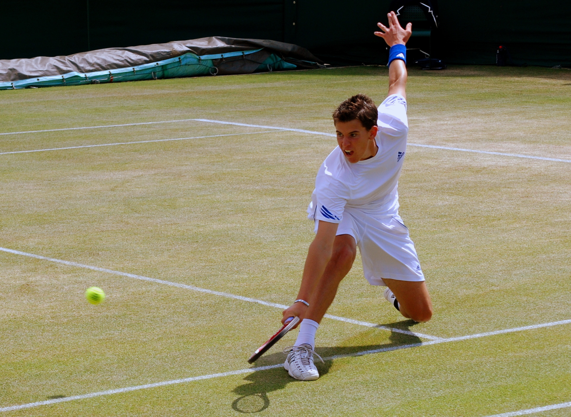 Dominic Thiem during his 3rd round match with Julien Cagnina. Day 9 of Wimbledon 2011.